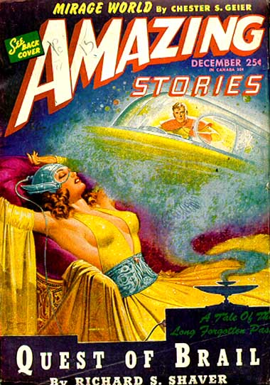 Copy of Amazing Stories, December 1945